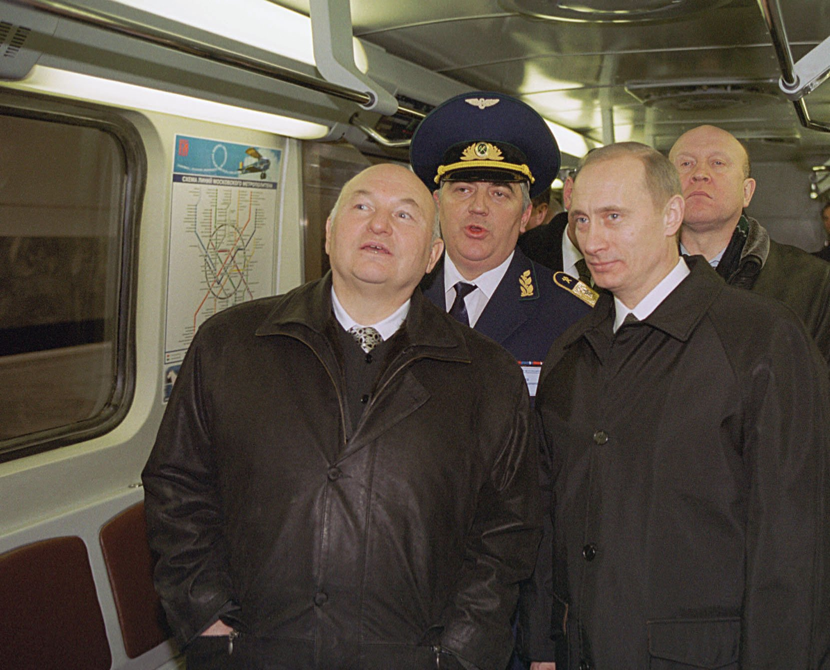 MOSCOW. Unveiling a new station of the new Moscow Metro station Annino. Vladimir Putin, Yury Luzhkov and Dmitry Gayev, head of the Moscow Metro, examining the new-generation high-speed train “Yauza”.